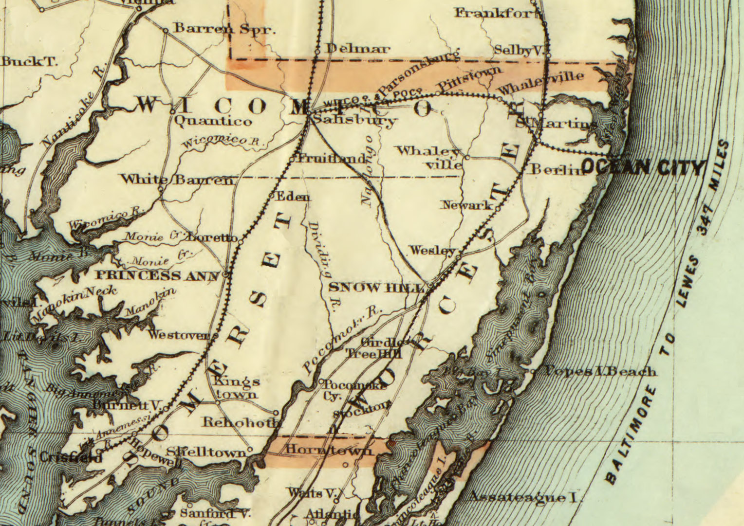 Published in an earlier 1883 map on the Washington and Atlantic railroad. cropped out of larger map and reformatted and adjusted for contrast and brightness .. source ..library of congress ...